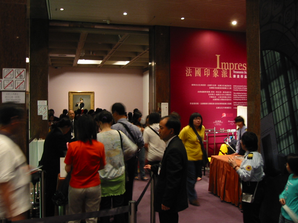 Spacial Exhibition Gallery 1 of Hong Kong Museum of Art